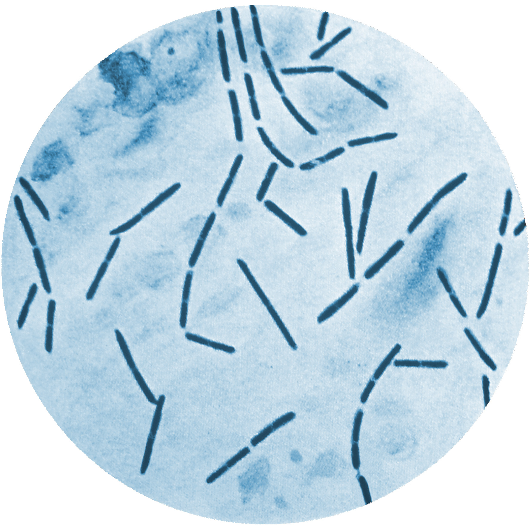 This illustration depicts a photomicrographic view of a methylene blue-stained culture specimen revealing the presence of numerous Clostridium septicum bacteria.